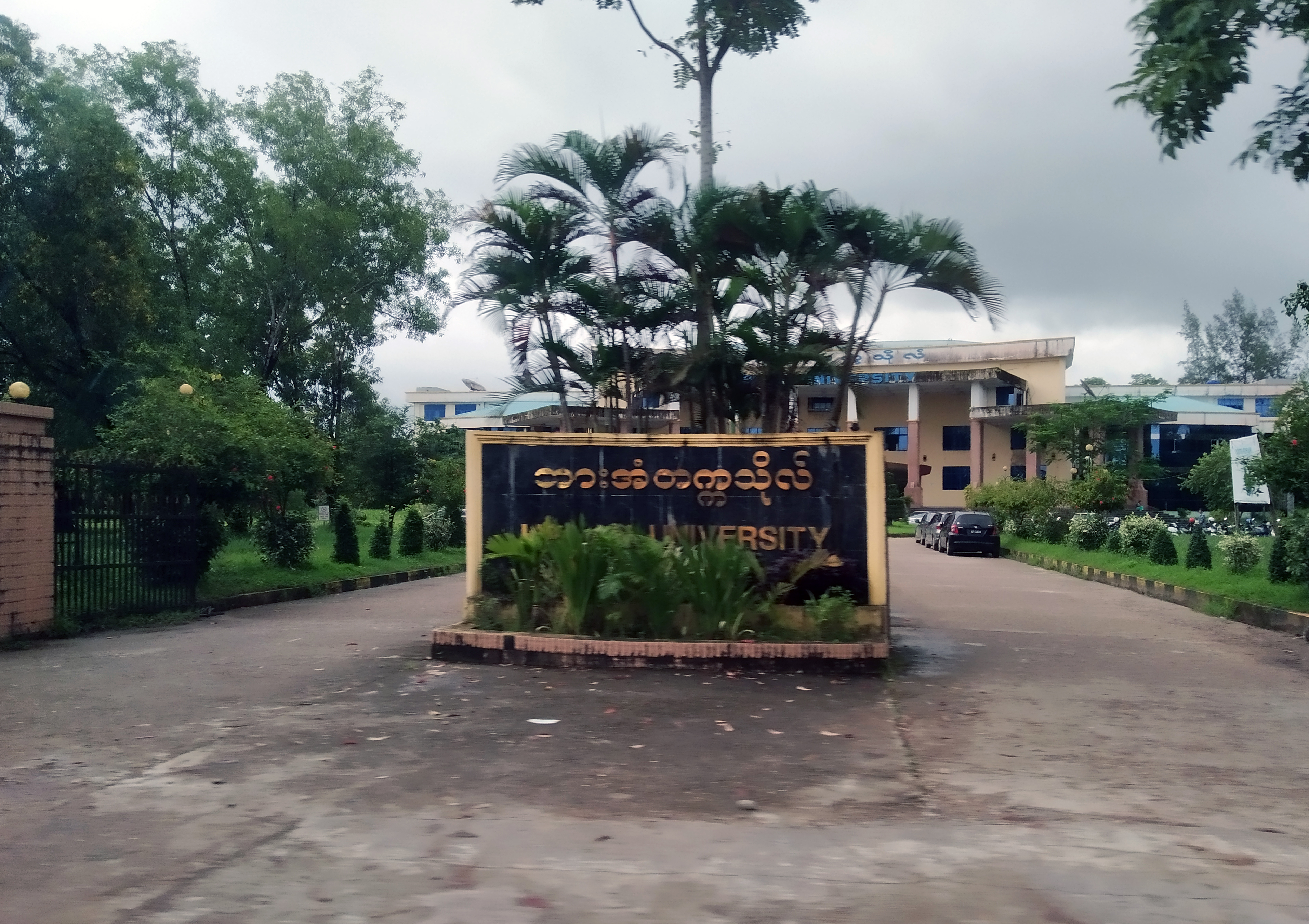 Entrance of Hpa-an University မြန်မာဘာသာ: ဘားအံတက္ကသိုလ် ဝင်ပေါက်